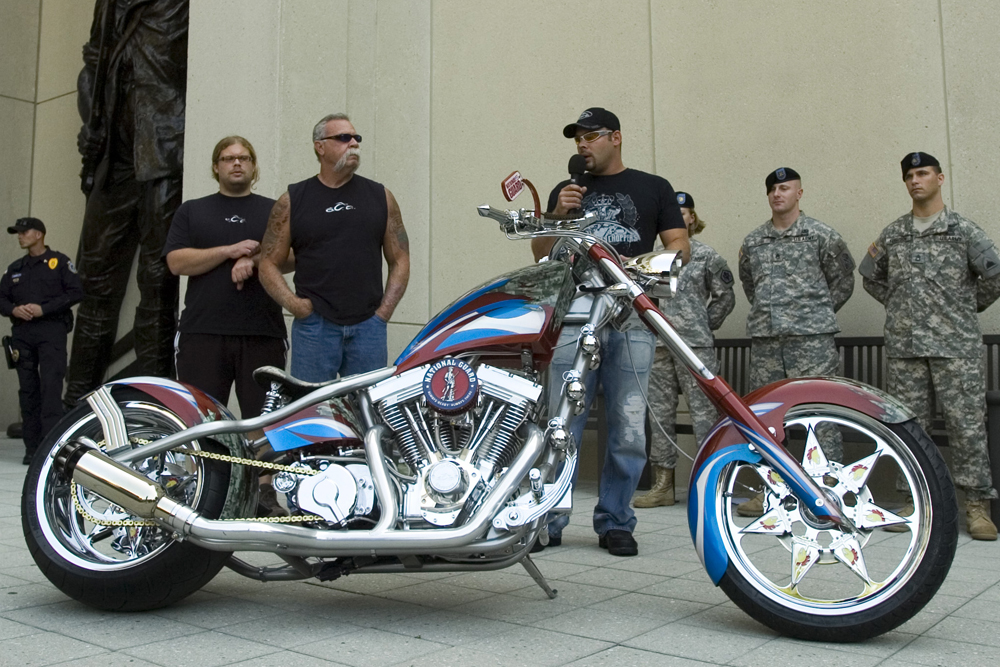 Date: 09.27.2007 Posted: 02.04.2008 06:08 Photo ID: 75873 VIRIN: 070927-A-3614S-074 Location: Arlington, US Mikey (from left), Senior and Paulie, from the Learning Channel's popular TV series 'American Chopper,' unveil their new "Patriot Chopper," commissioned by the National Guard and designed by National Guard troops during a Sept. 27 ceremony at the Army National Guard Readiness Center in Arlington, Va. Pfc. Joseph S. Scheibe, a recent Ohio recruit, was one of four troops whose ideas were selected in a national contest and incorporated into the motorcycle's final design.